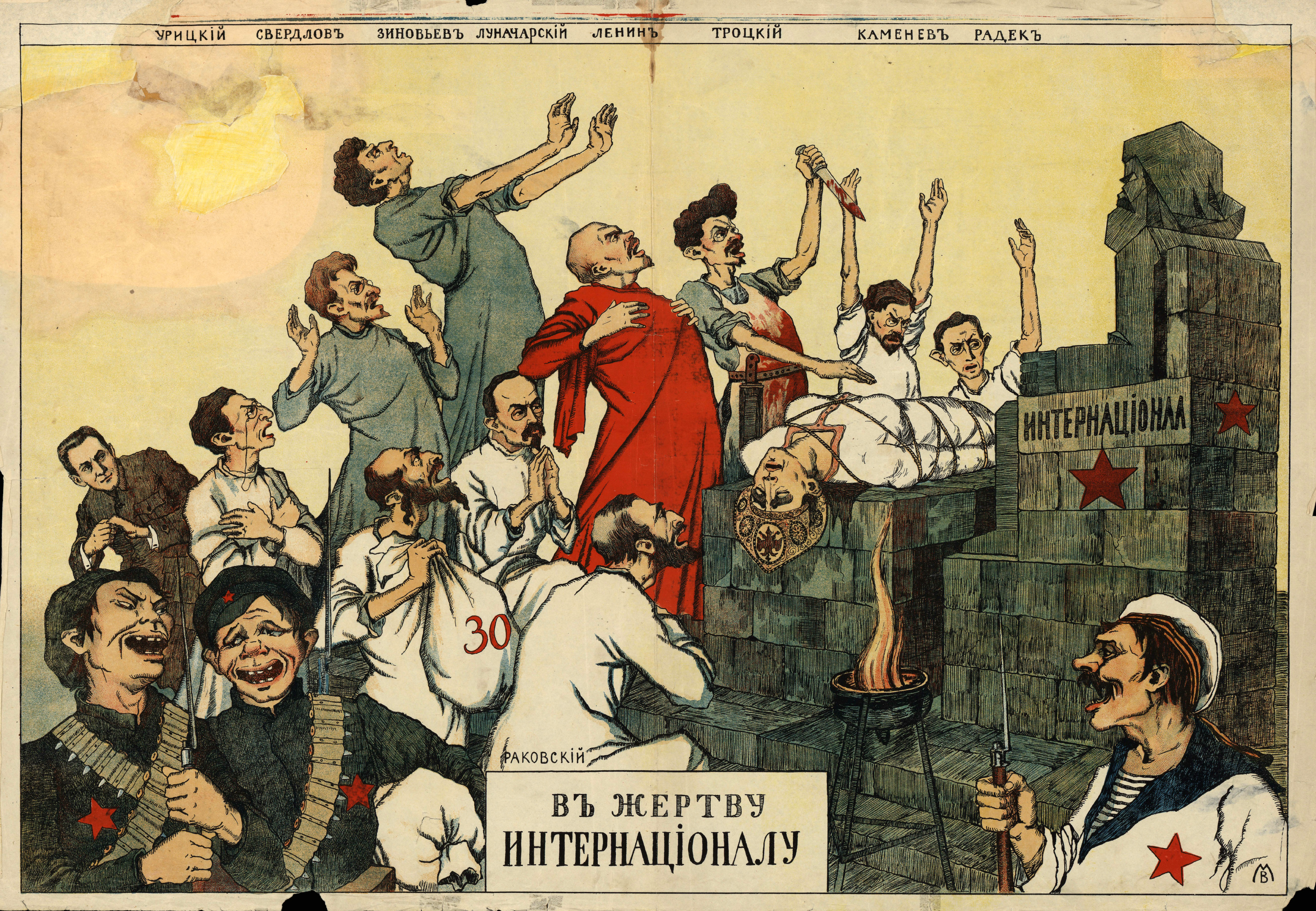 "Sacrifice to the International", a White Russian anti-Bolshevik propaganda poster produced during the Russian Civil War. In this image, a number of senior Bolsheviks - Uritzky, Sverdlov, Zinoviev, Lunacharsky, Lenin, Patrovsky, Trotsky, Kamenev, and Radek - sacrifice an allegorical character representing Russia to a statue of Karl Marx. The figure of Alexander Kerensky can be seen behind these figures, looking on impotently. In the foreground are negative stereotypes of Red Army characters, a sailor, Jews, one of whom holds a bag of thirty pieces of silver, a reference to the Biblical figure of Judas Iscariot, and Asiatic soldiers with booty.